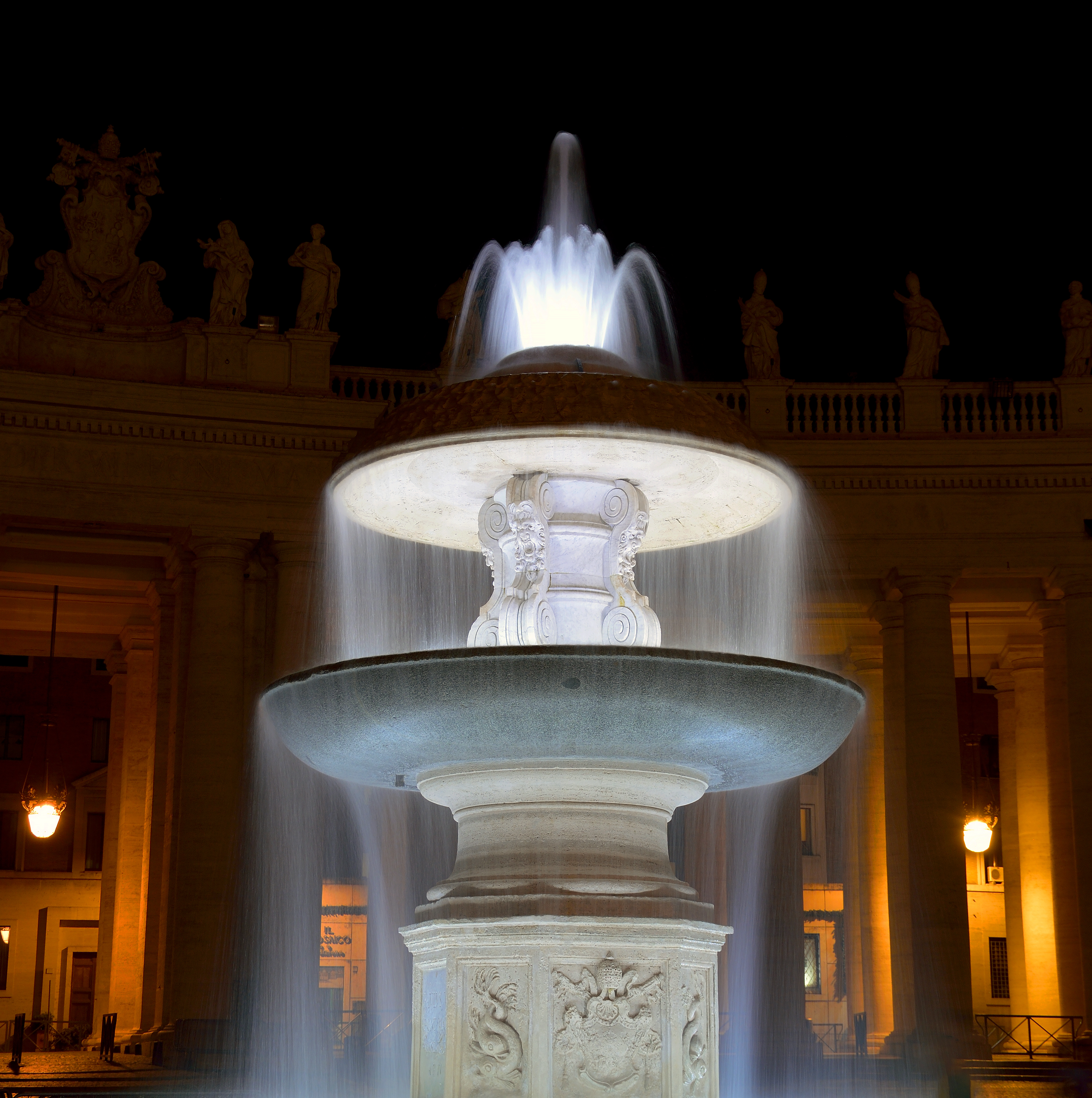 The "Bernini's fountain" of St. Peter's Square at night.jpg